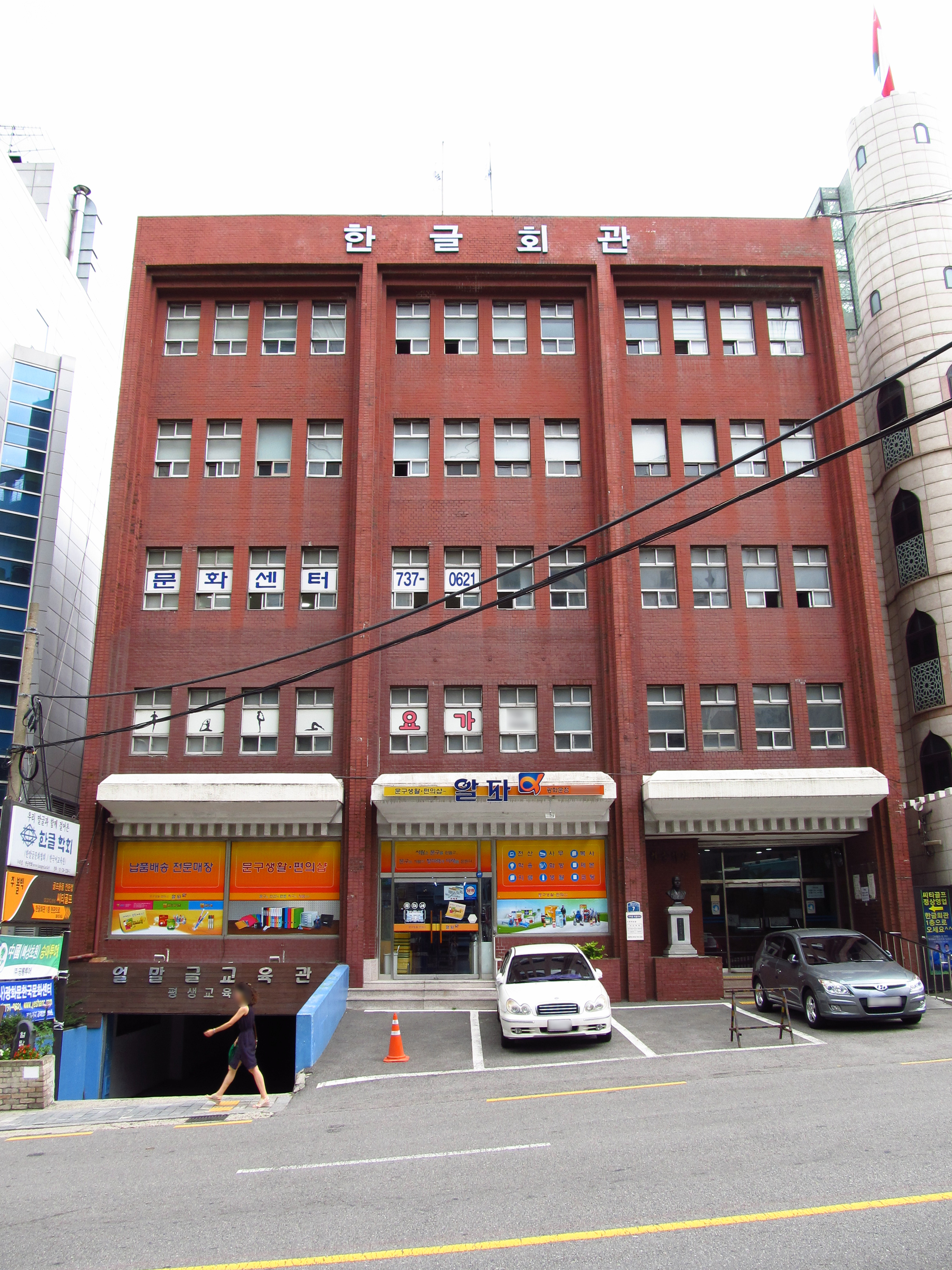 The headquarters of Korean Language Society in Jongno-gu, Seoul, Republic of Korea